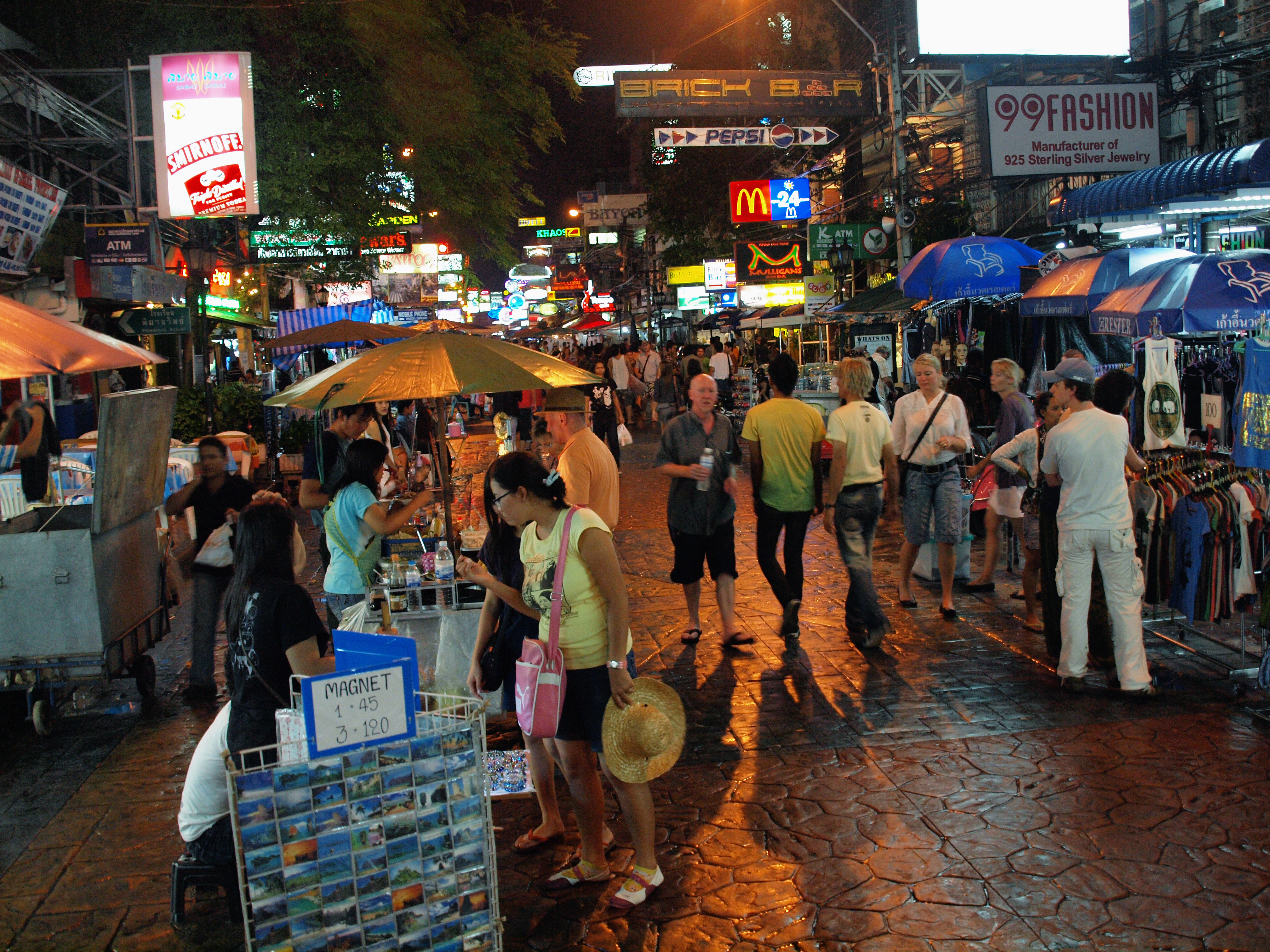 Khao San Road